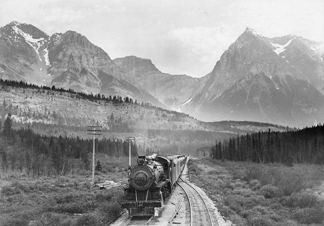 Canadian Pacific Railway Locomotive #5068 at Leanchoil, B.C.